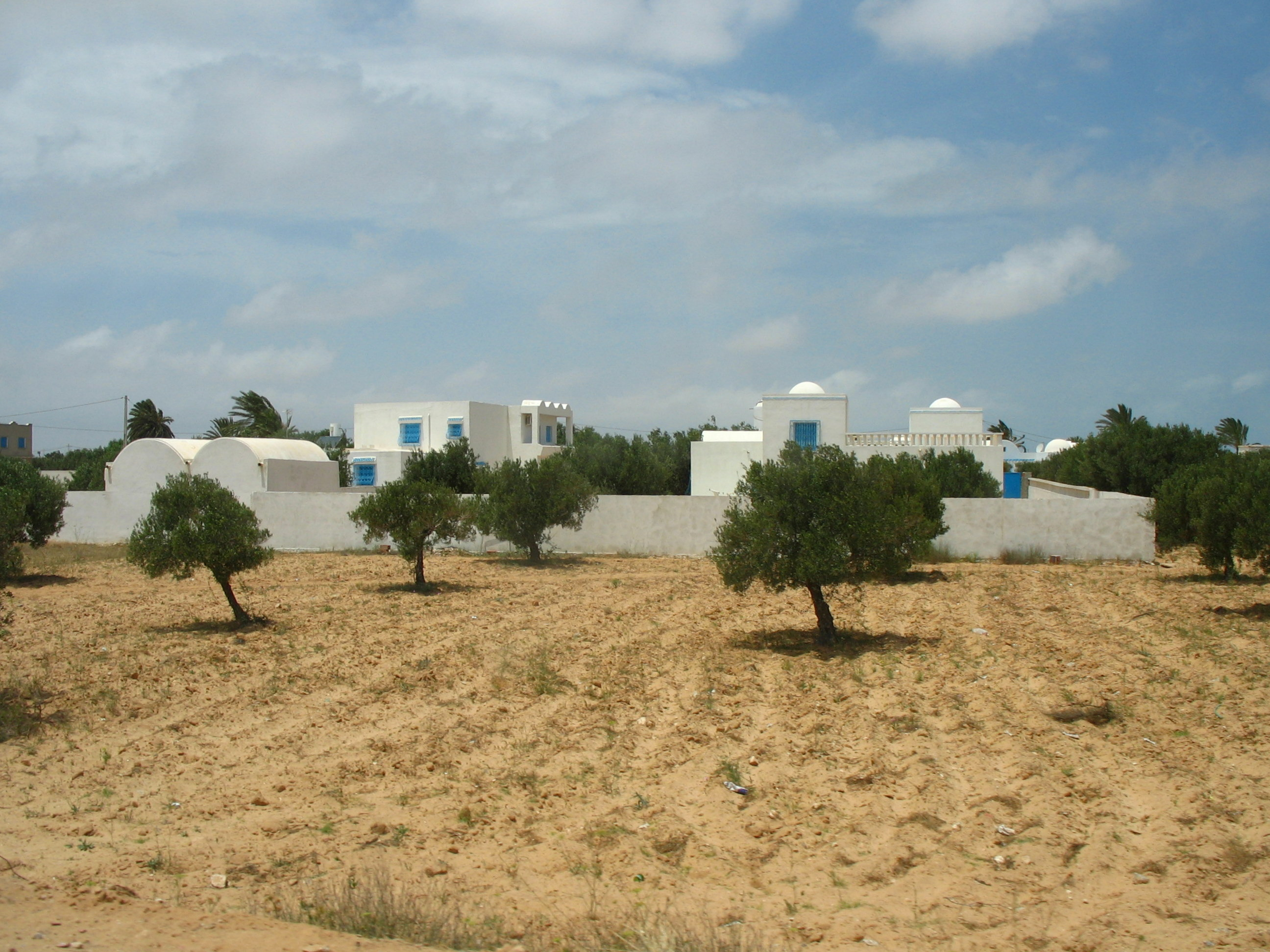 Djerba (Tunisia).